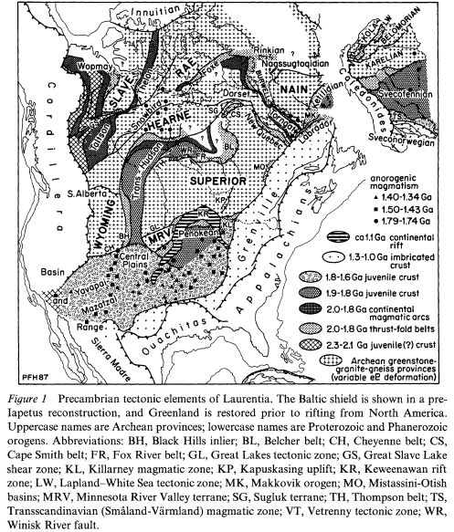 This is a North American map showing Archean provinces and Proterozoic and Phanerozoic orogenies.